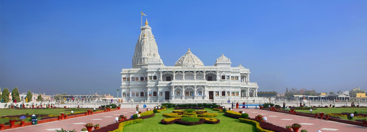 Prem Mandir